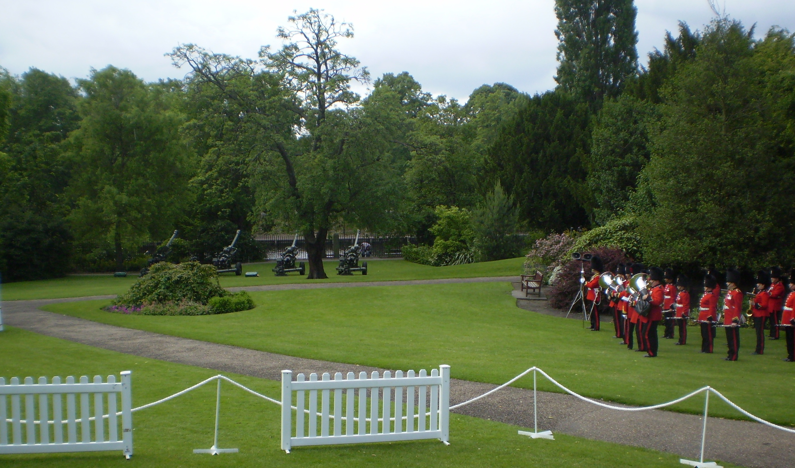 The saluting station in Museum Gardens York, England before the 21-gun salute to mark the Queen Elizabeth II's official Birthday on 14 June 2008.